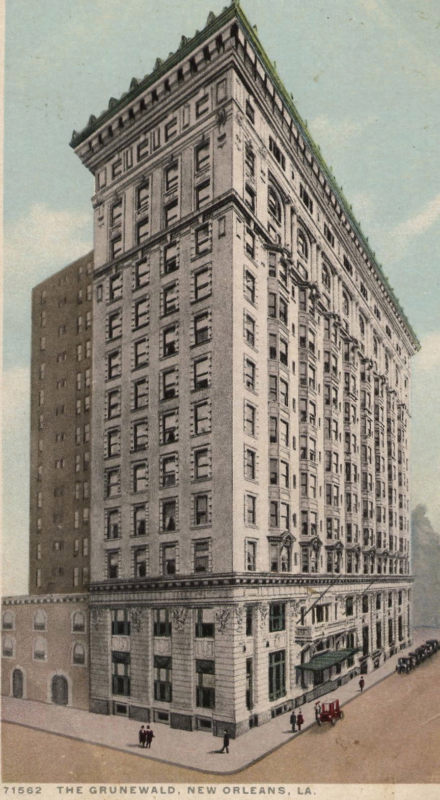 The Grunewald Hotel, New Orleans. From postcard. The Grunewald became The Roosevelt in 1923